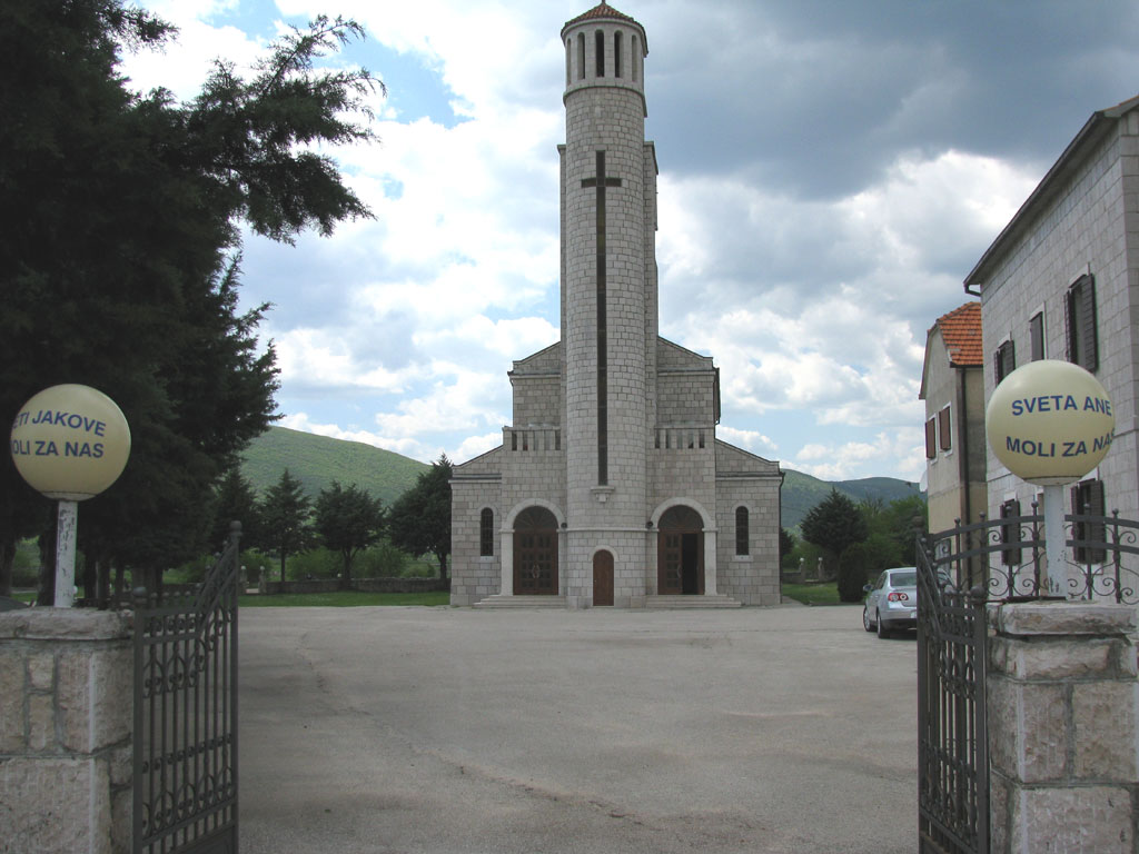 Church of St. Jacob in Dicmo, near Split, Croatia